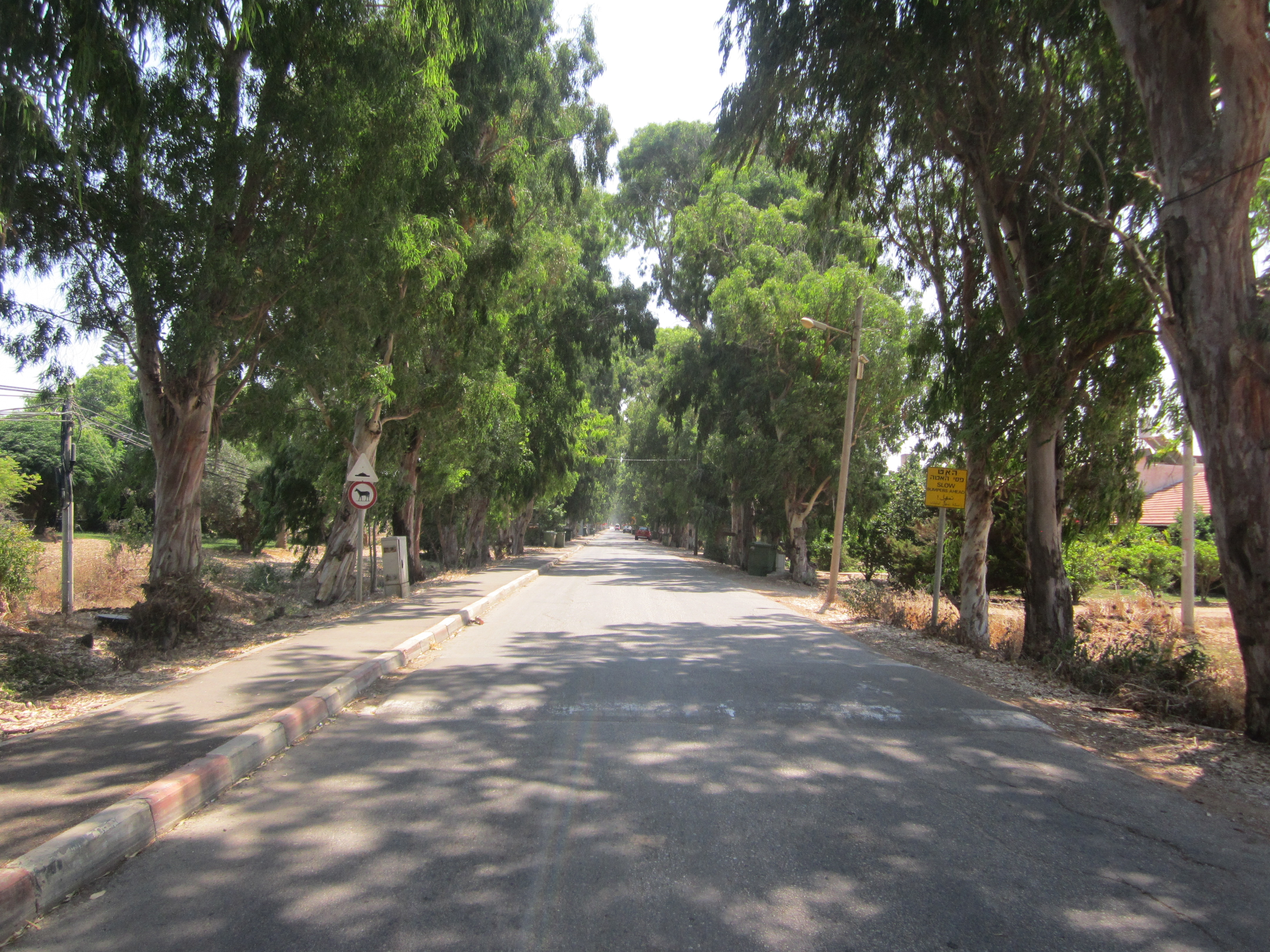 Eucaliptus tree row in Bustan Hagalil